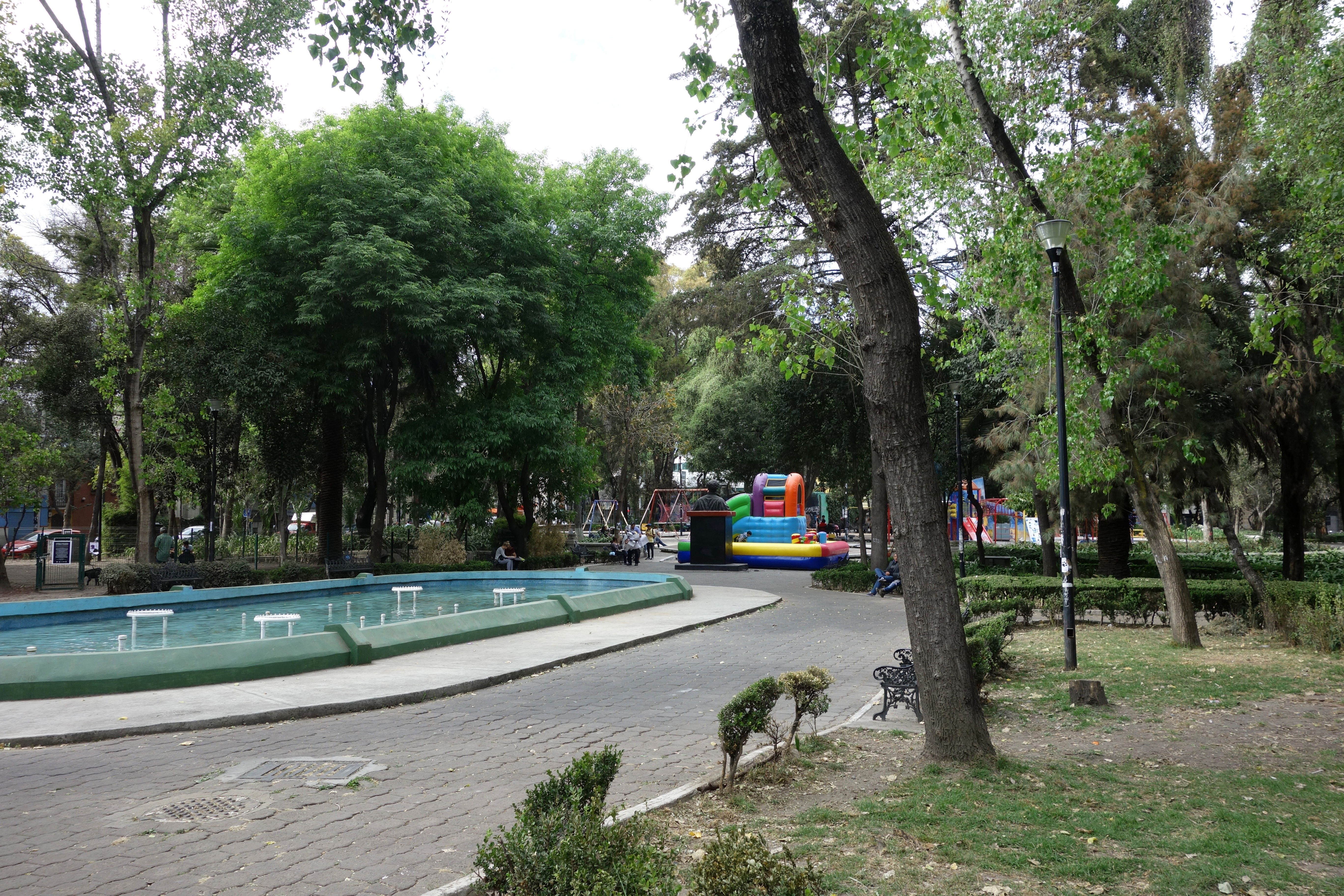 Jardín Pushkin in Mexico City